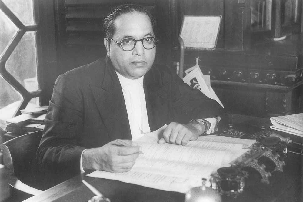 B.R. Ambedkar in 1950.